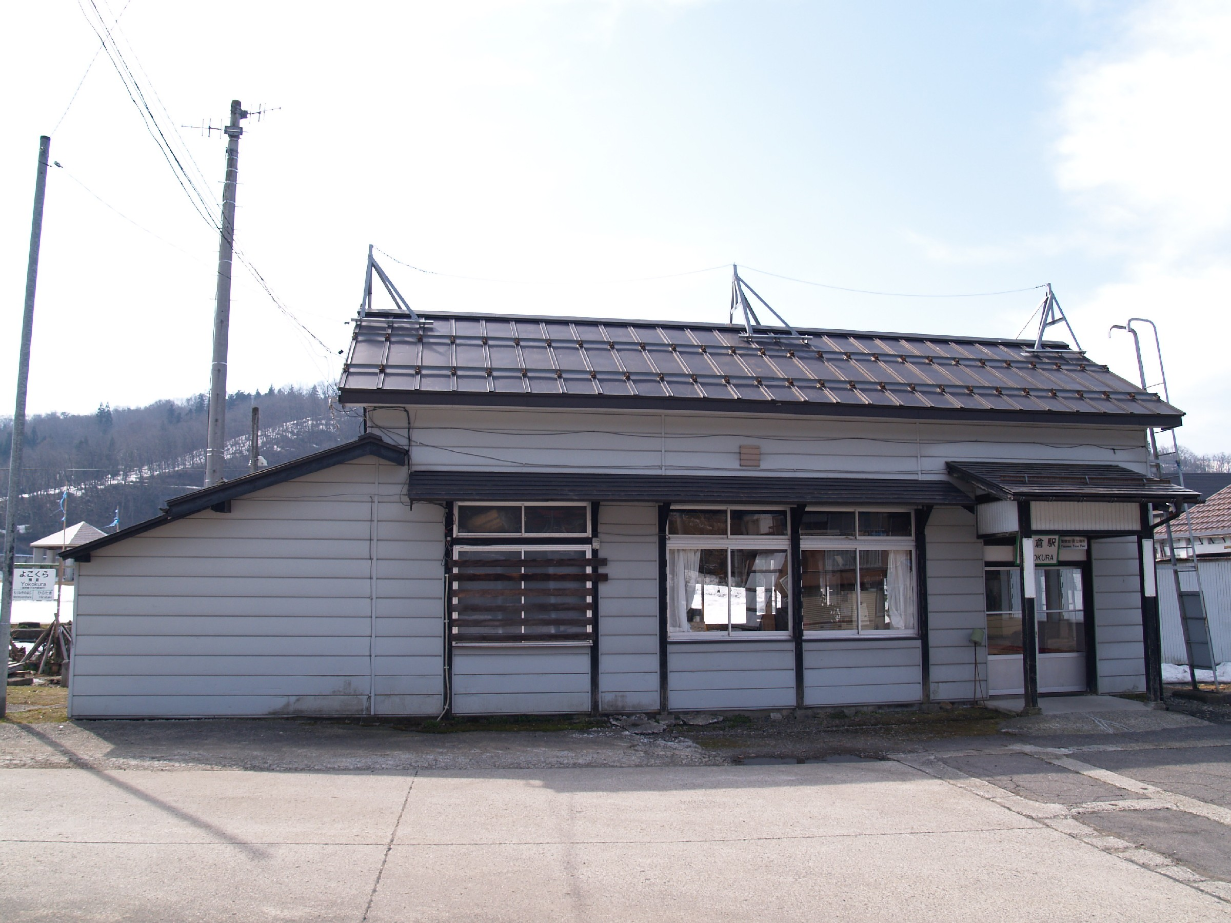 Yokokura Station on the Iiyama Line